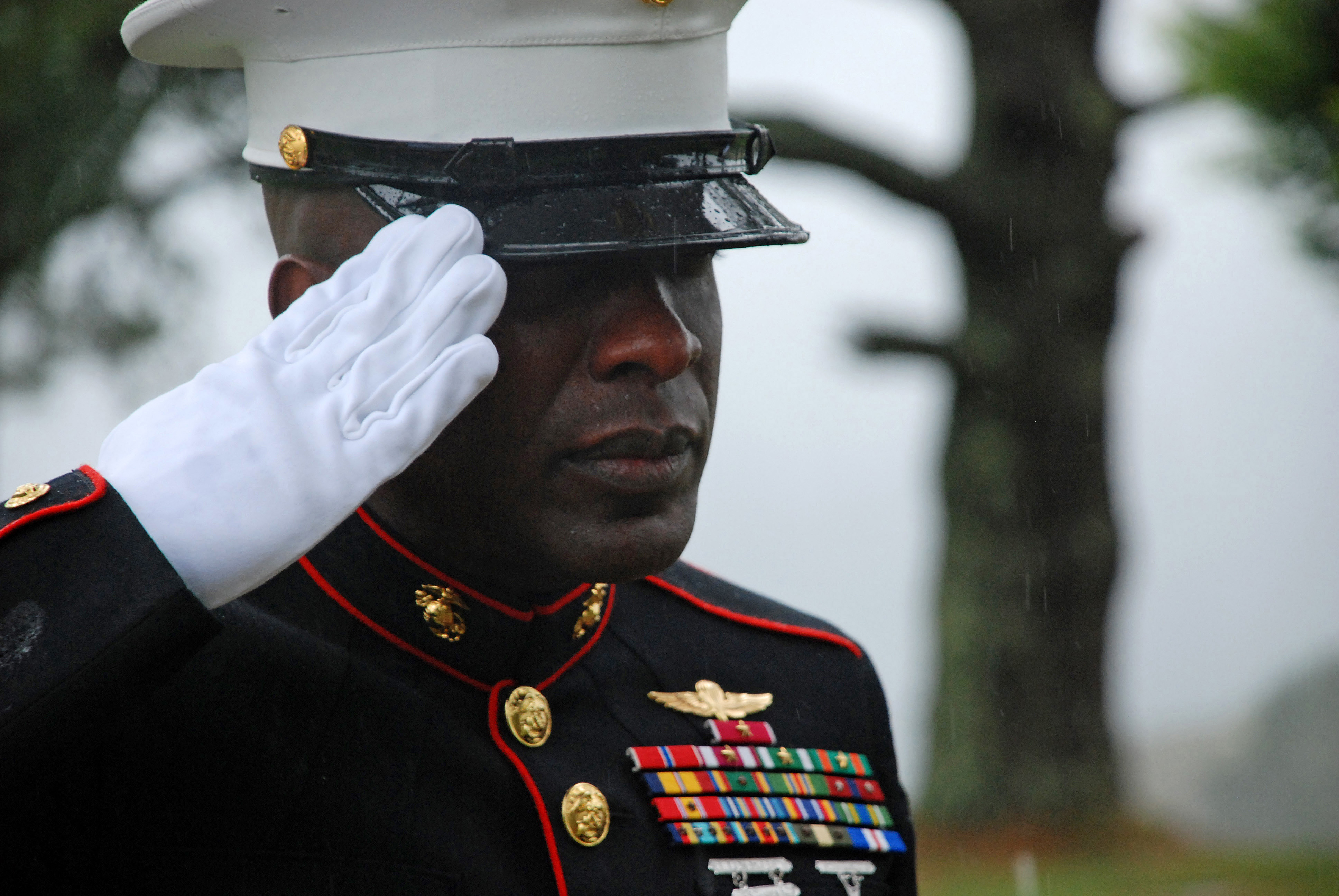 Sergeant Major of the Marine Corps Carlton W. Kent salutes the recently re-discovered grave of the first SMMC, Wilbur Bestwick.